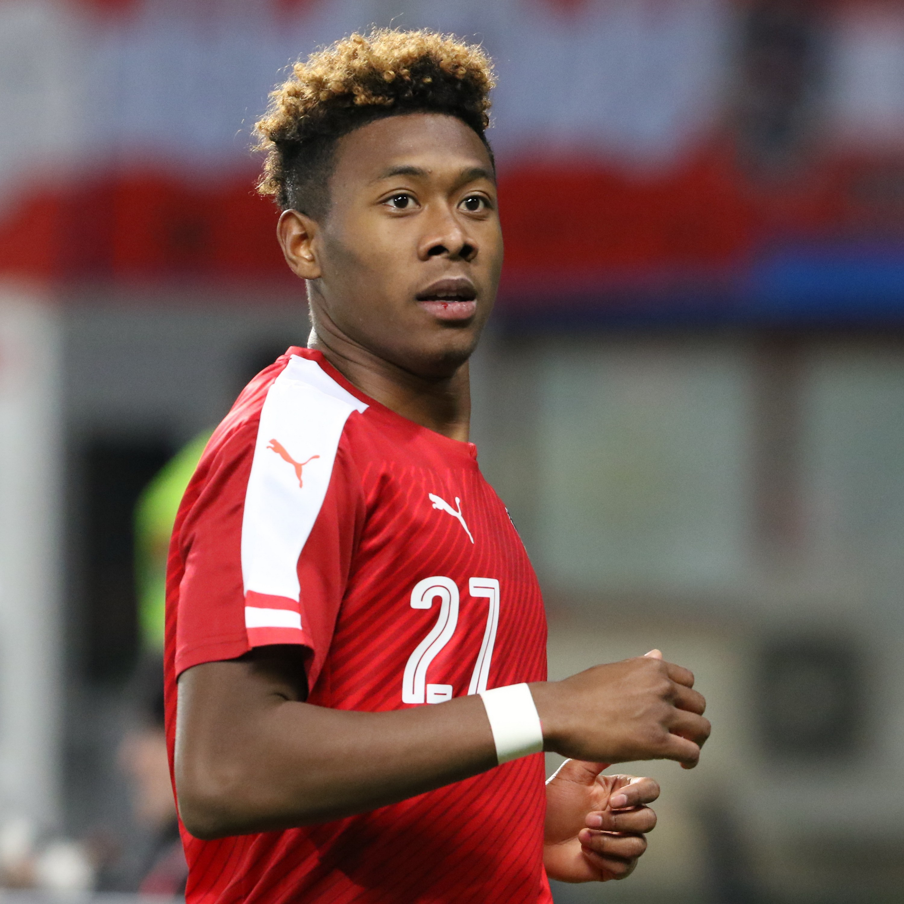 Friendly match – Austria (red shirts) vs. Turkey (blue shirts) 1–2 (1–1) on 2016-03-29 in Ernst-Happel-Stadion, Vienna – The photo shows David Alaba (FC Bayern Munich).